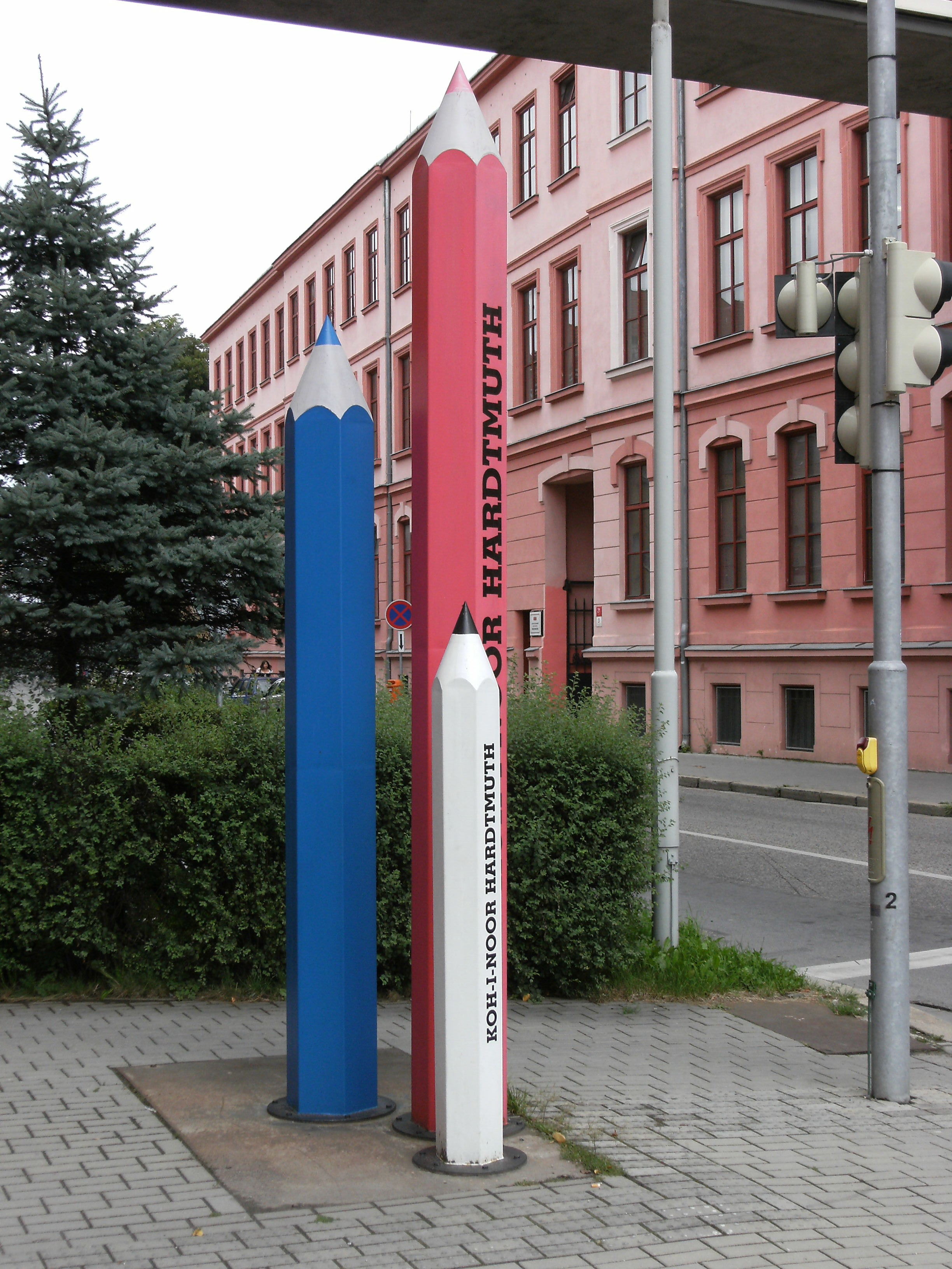 Koh-i-noor Hardtmuth České Budějovice.